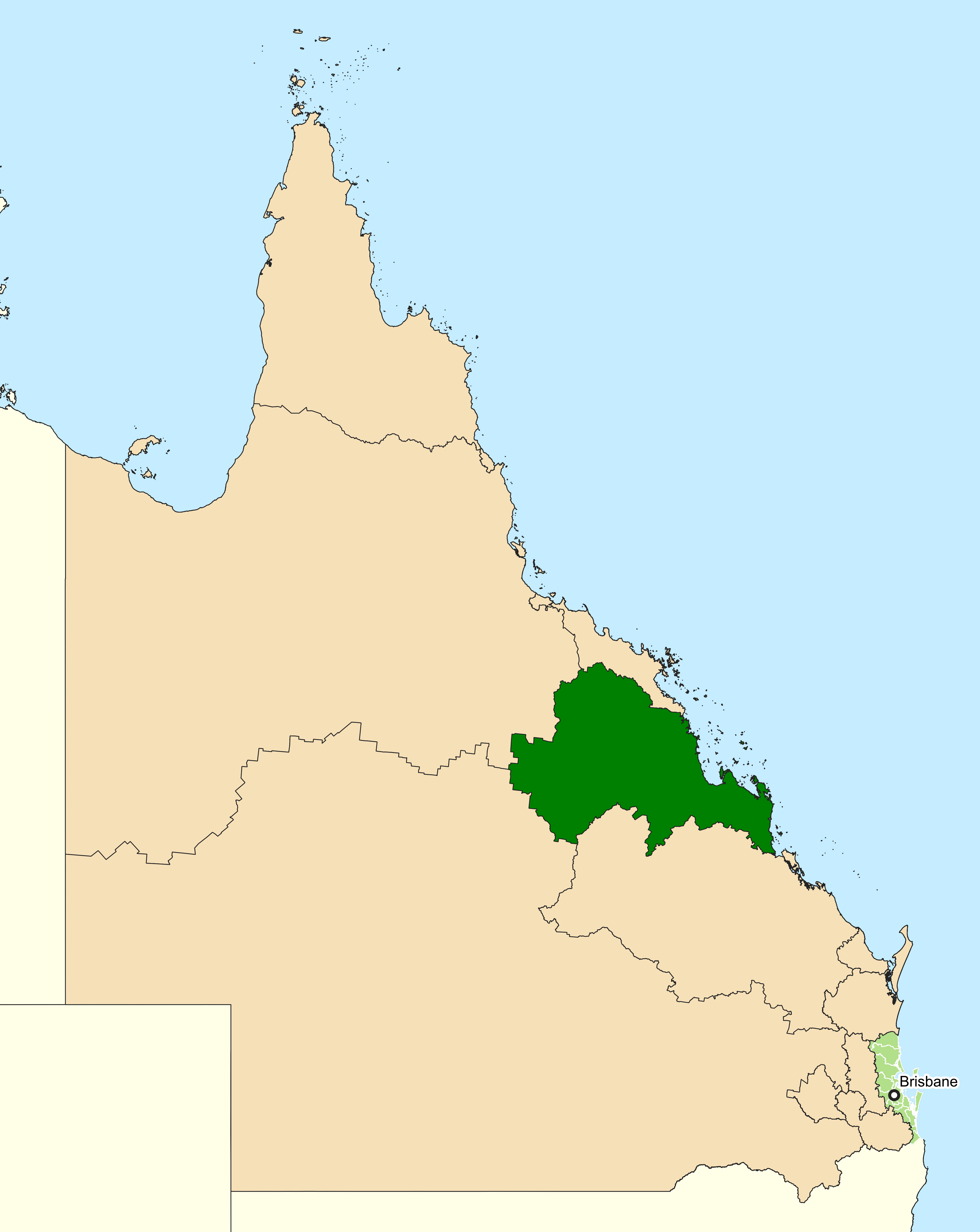 Location of the Australian federal electoral division of Capricornia (dark green) in Queensland as of the 2019 Australian federal election. Incorporates or developed using Administrative Boundaries ©PSMA Australia Limited licensed by the Commonwealth of Australia under Creative Commons Attribution 4.0 International licence (CC BY 4.0).